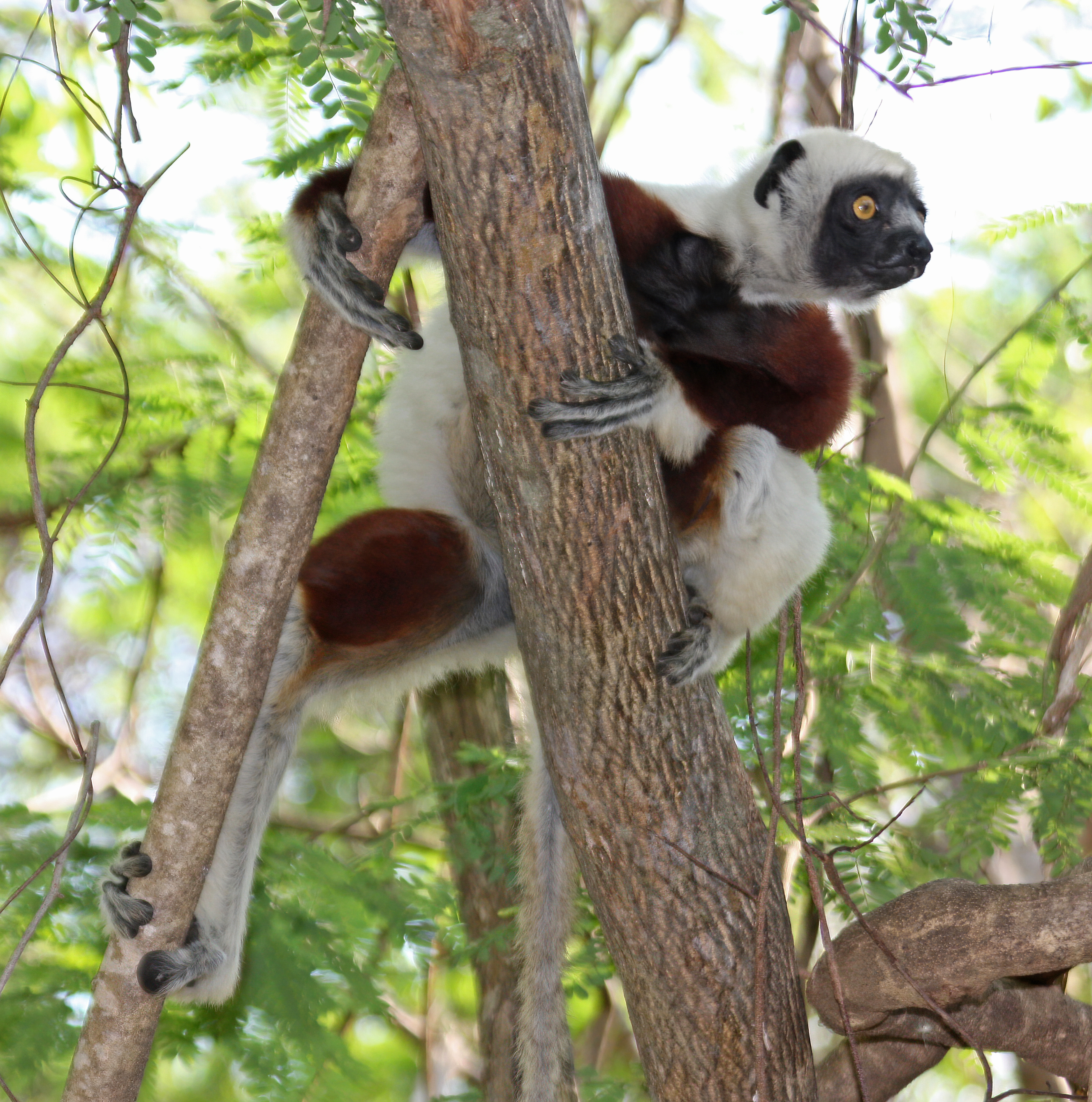 Coquerel's sifaka lemur (propithecus coquereli) in the Anjajavy Forest, Madagascar